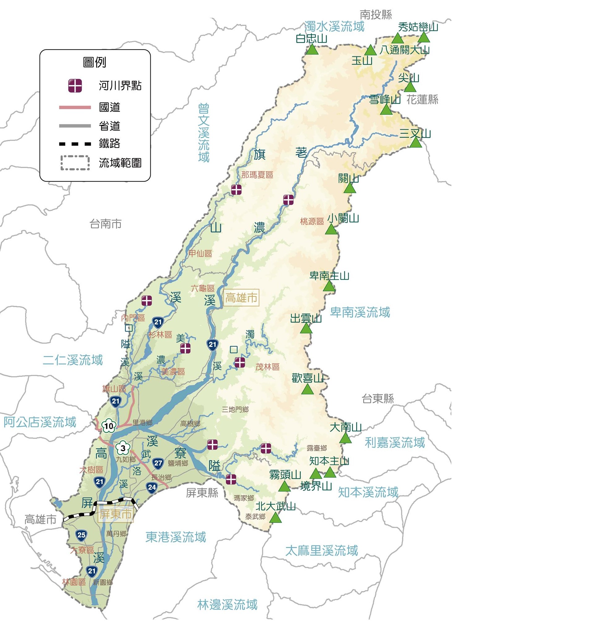 Kaohping River Basin Map